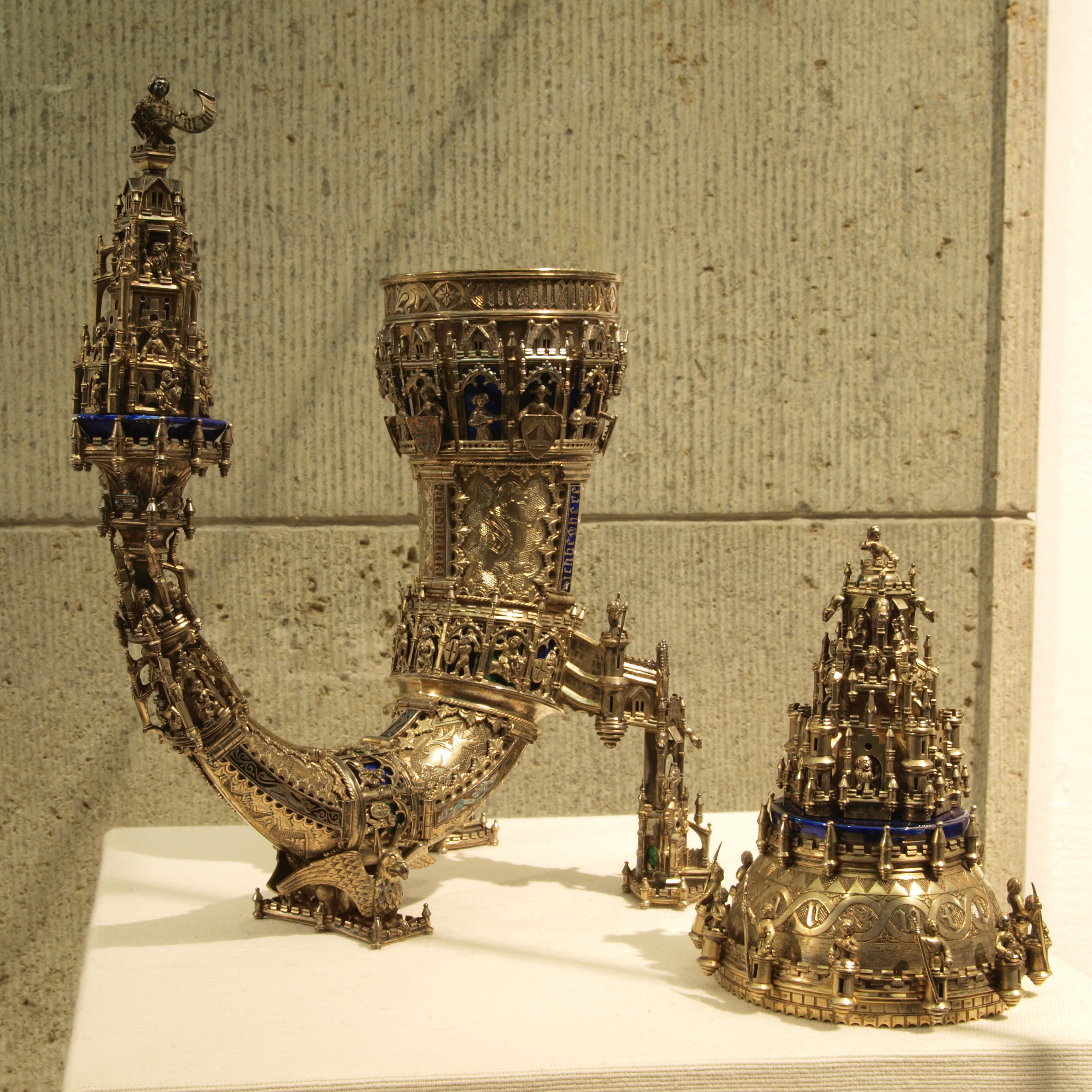 Copy of the Oldenburger Wunderhorn (German lanaguage for Oldenburg miracoulus horn). A late medieval centerpiece and decorative drinking vessel for serving the welcome. Symbol of House of Oldenburg. The original is at Rosenborg Castle copenhagen, Denmark